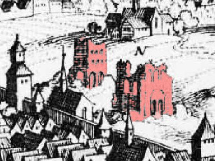 The Roman baths Barbarathermen outside of the city walls of Trier on an engraving by Merian 1646. The view is probably taken from 1548; see commentary on image:De Merian Mainz Trier Köln 045.jpg. In the background at the left the Cartusian monastery St. Alban. - The coloration is not from the original engraving and was added to highlight the building.